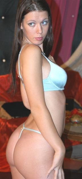 Alicia Alighatti on Set of movie `I Dream Of Chasey`, Nov 23, 2004